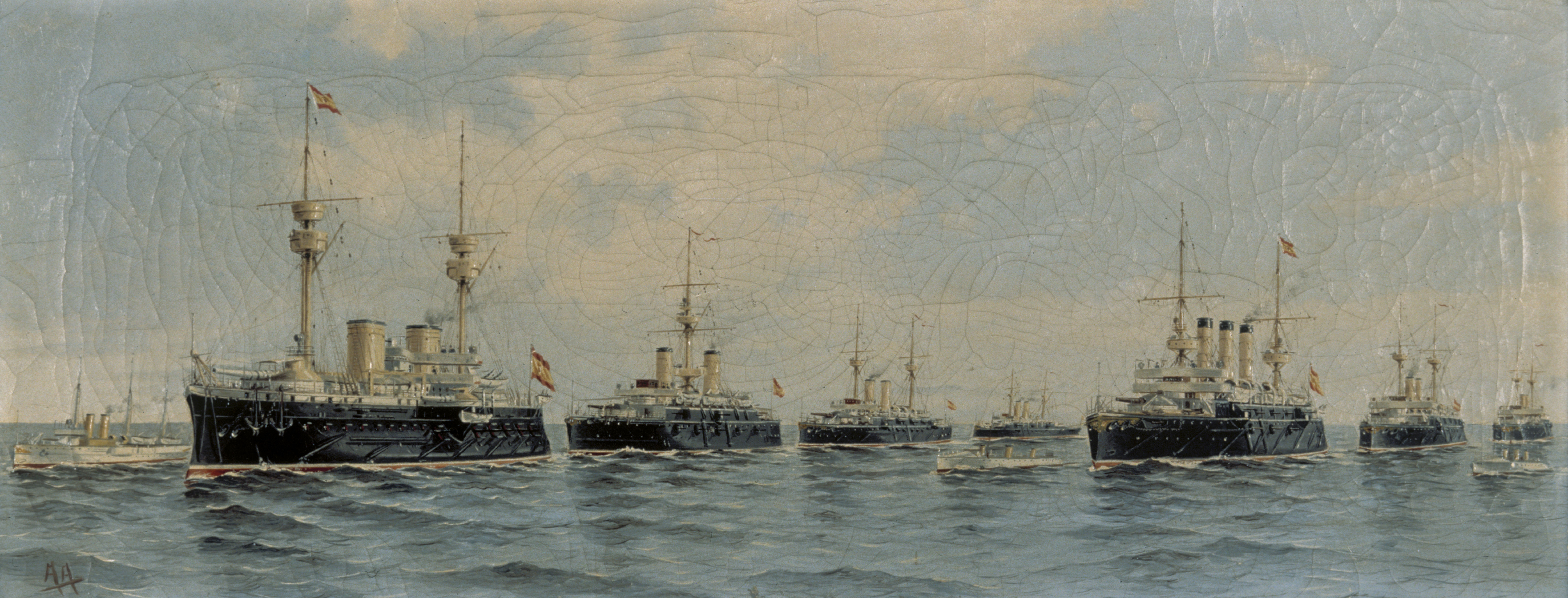 Spanish Asia-Pacific squadron at the Ría of Ferrol. From the left: Battleship Pelayo, Cruisers Cristóbal Colón, Infanta María Teresa, Alfonso XIII, Carlos V, Oquendo and Vizcaya. The two smaller ships are torpedo boats.